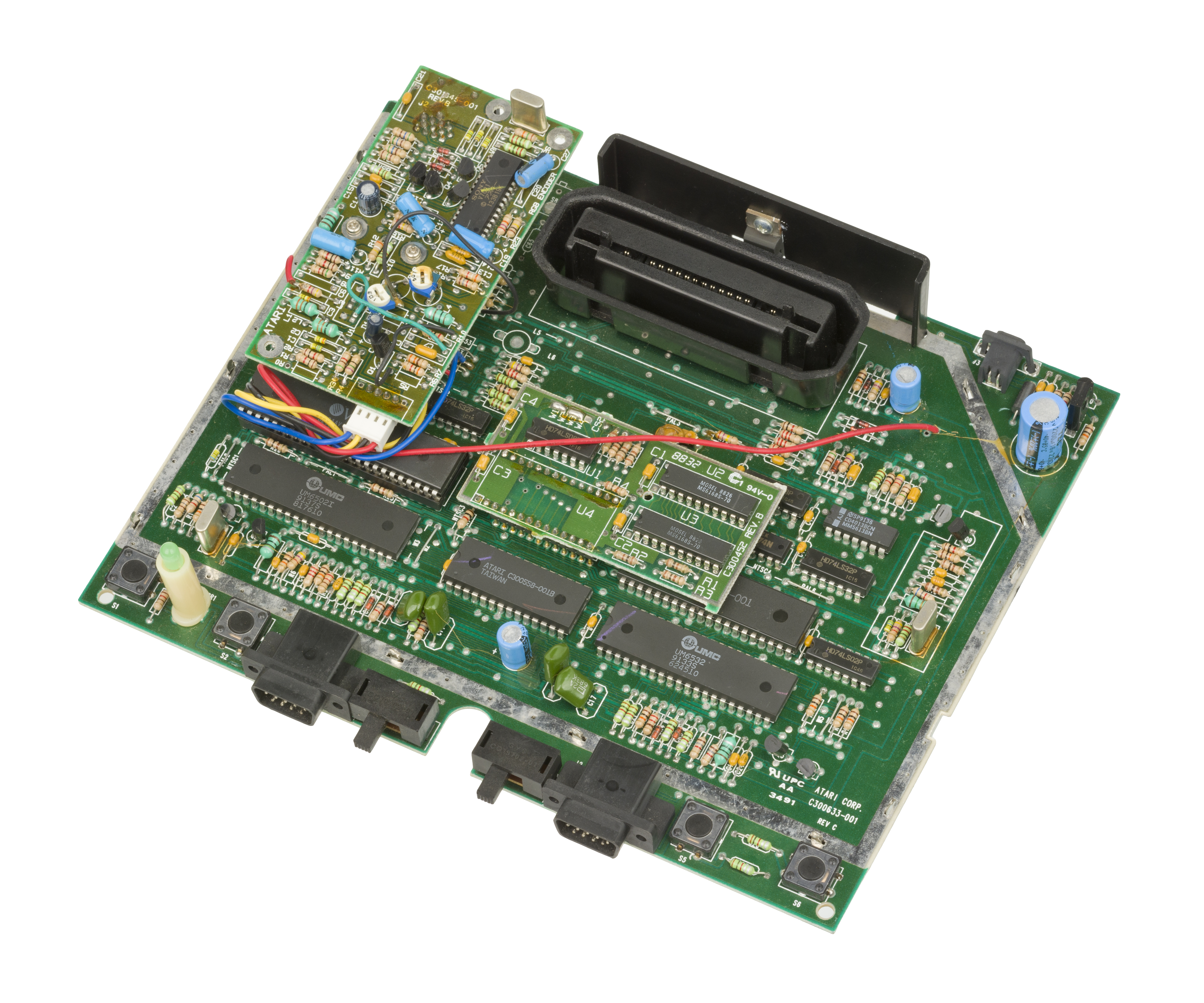 The motherboard of a PAL Atari 7800 that has been officially modded to display RGB for the French market.